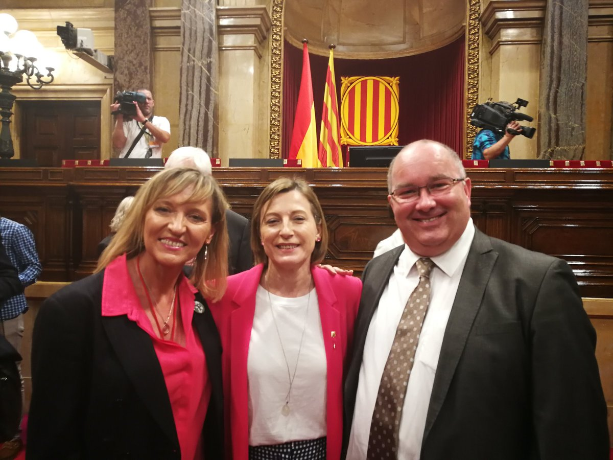 Martina Anderson MEP and Seanadóir Trevor Ó Clochartaigh with Carme Forcadell, Speaker of the Parliament of Catalonia.